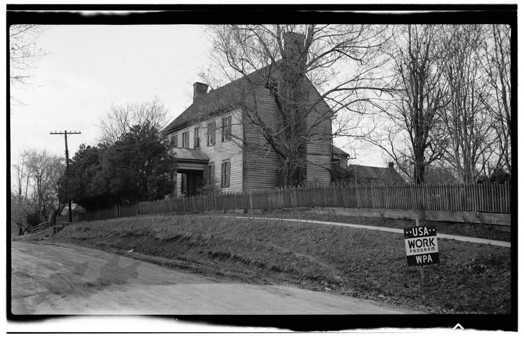 View of the Irwin House, Read & Broad Streets, Milton, Caswell County, North Carolina. Historic American Buildings Survey, Library of Congress, Washington, D. C.